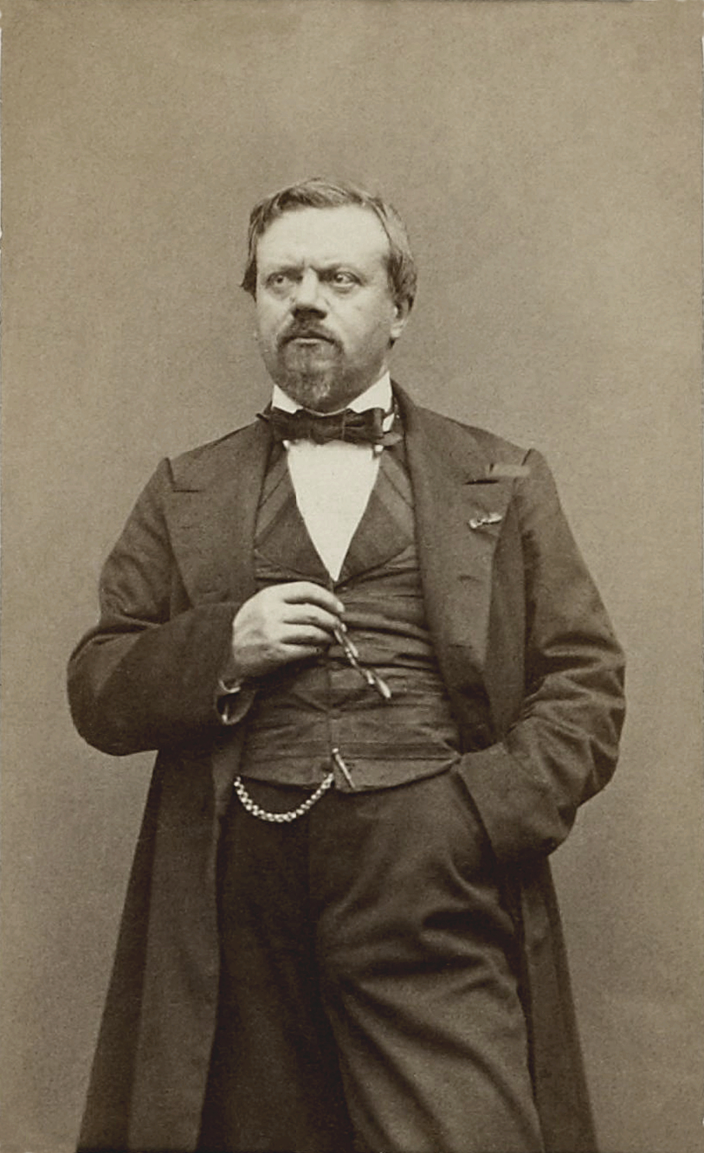 Louis-François Nicolaïe, aka Clairville (1811 - 1879), french actor, poet, playwright, chansonnier and goguettier